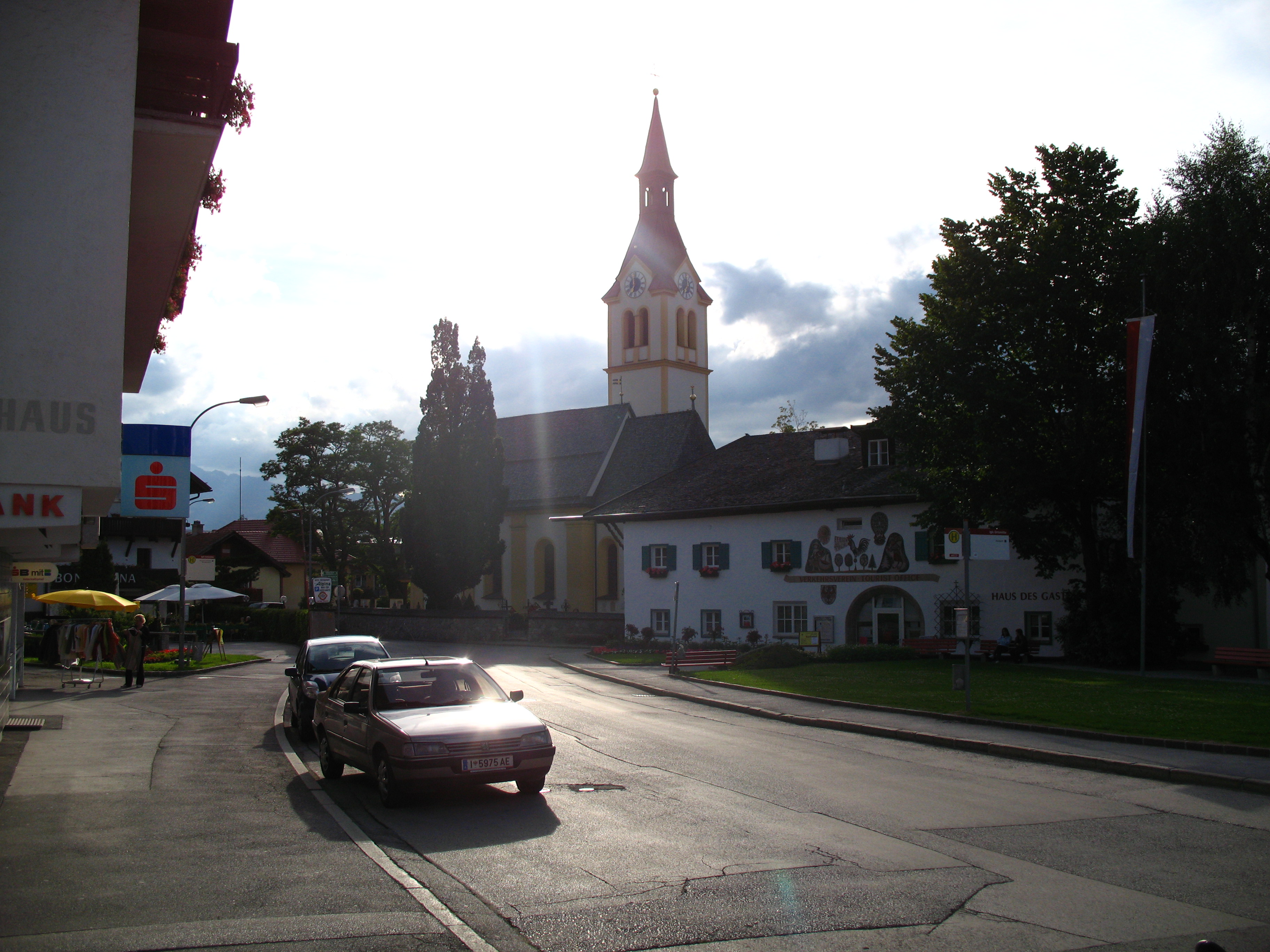 Igls Street, Igls, Austria